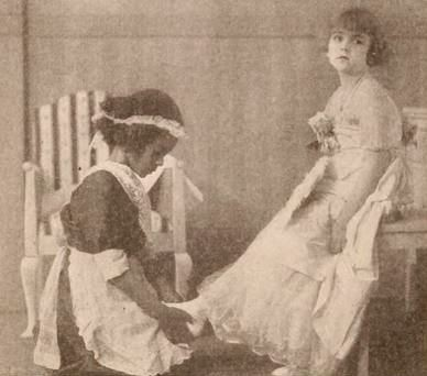 Still from the dream sequence of the American short film The Bridge of Fancy (1917) with (from left) an unidentified child actress and Mary McAllister, on page 28 of the August 11, 1917 Exhibitors Herald. This film was the eleventh film of the short film series Do Children Count? (1917), all of which starred Mary McAllister.